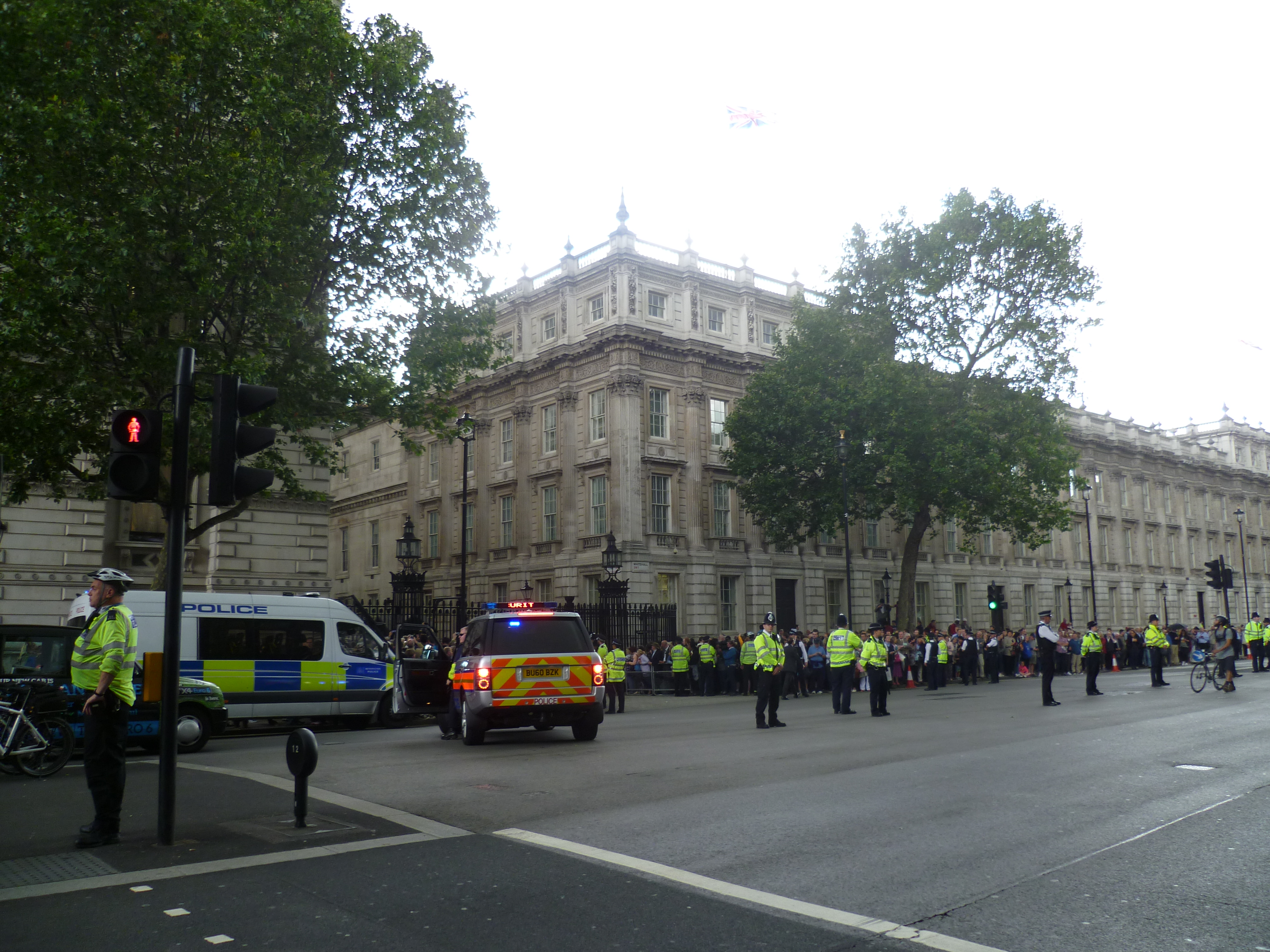 London